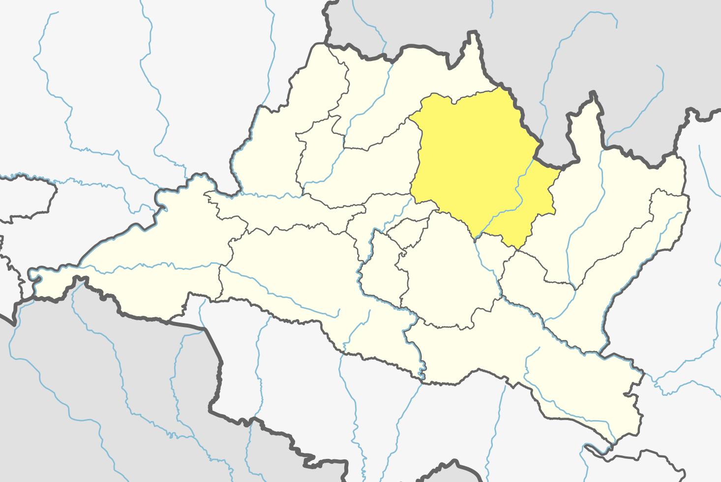 A district of Bagmati Pradesh